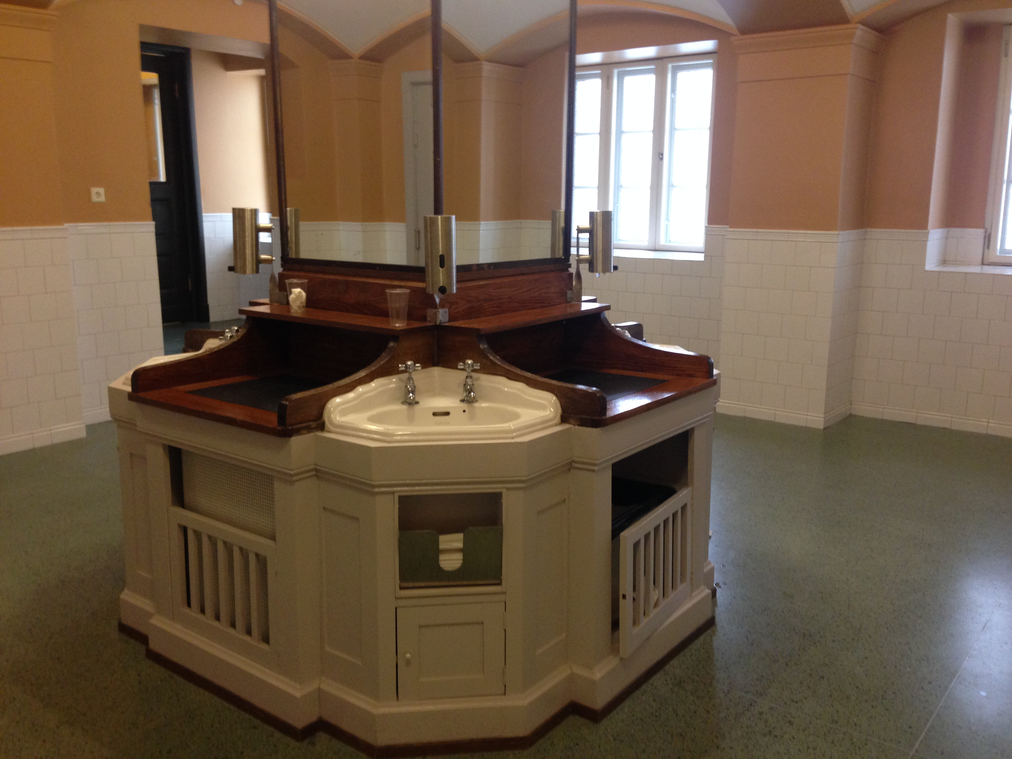 An old-fashioned gents' washroom in the basement of the Domus Media of the University of Oslo at Karl Johans gate, Oslo, Norway.